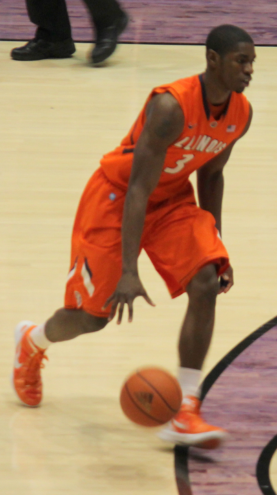 Brandon Paul at Welsh-Ryan Arena in Evanston, Illinois on January 4, 2012.